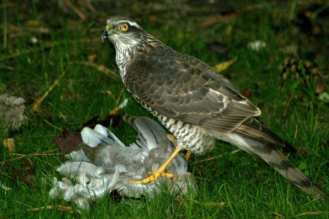 Sparrowhawk Accipiter nisus attacking a dove in a garden in Almere, the Netherlands